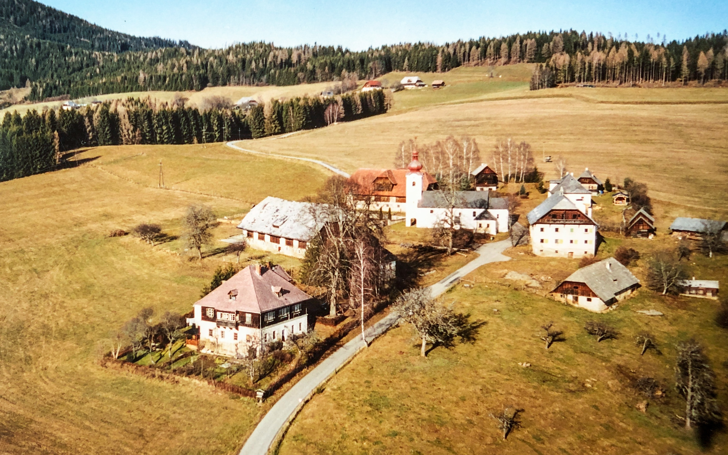 St. Jakob ob Gurk in the Gurktal Alps Carinthia / Austria / EU. Behind the lime tree the Haberhaus (formerly Tramegger) with smithy (for the time being demolished). Under the parish church St. Jakob ob Gurk the lower and above the church the upper Jakober Stadl. Behind it the former Jakober granary. Behind the Jakoberhof the vicarage and the house of the sexton. On the right are the outbuildings of St. James, all of which were demolished. The pigsty, the henhouse, the mill and the wooden hut.